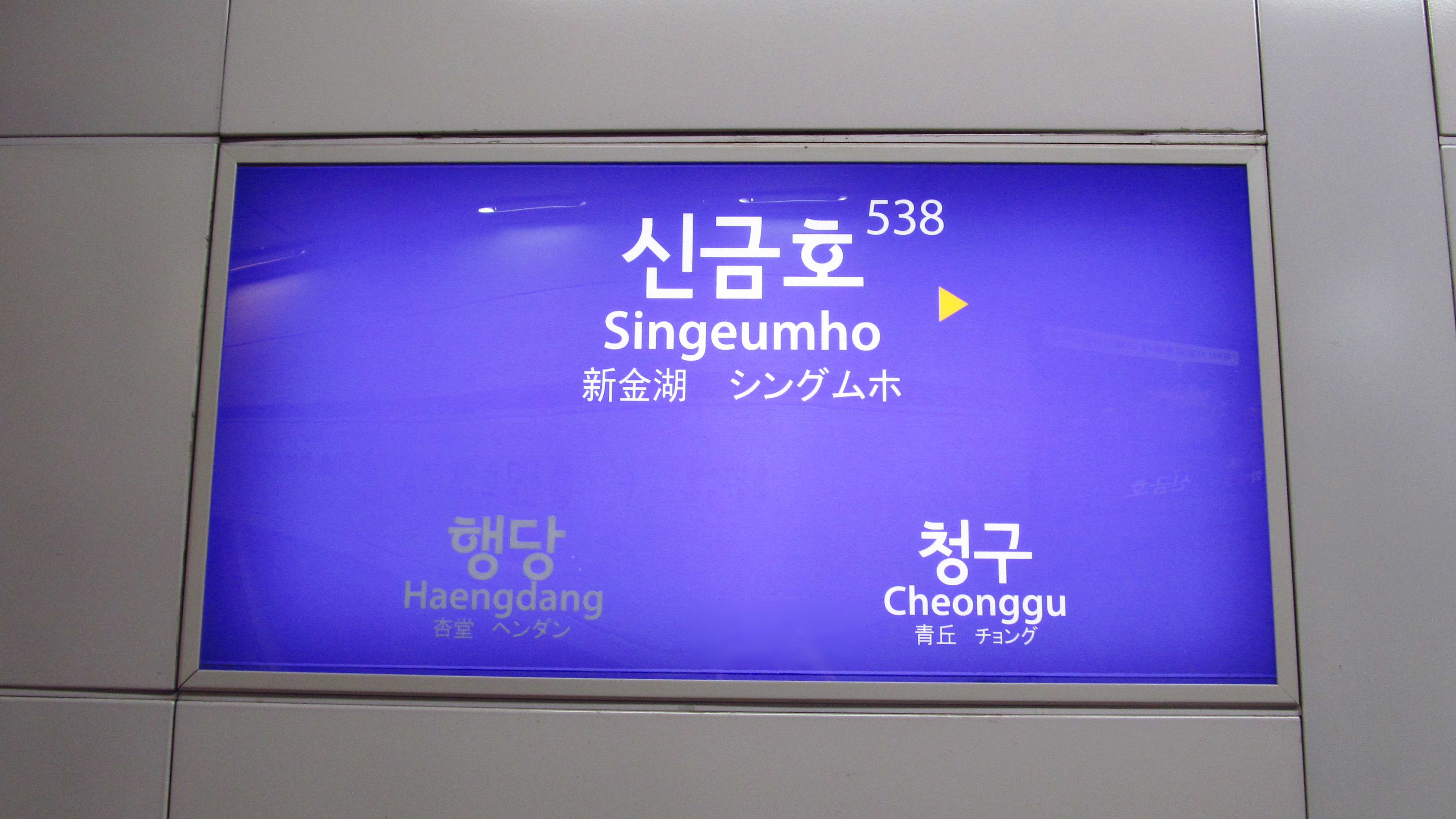 A sign of Singeumho Station on Seoul Subway Line 5